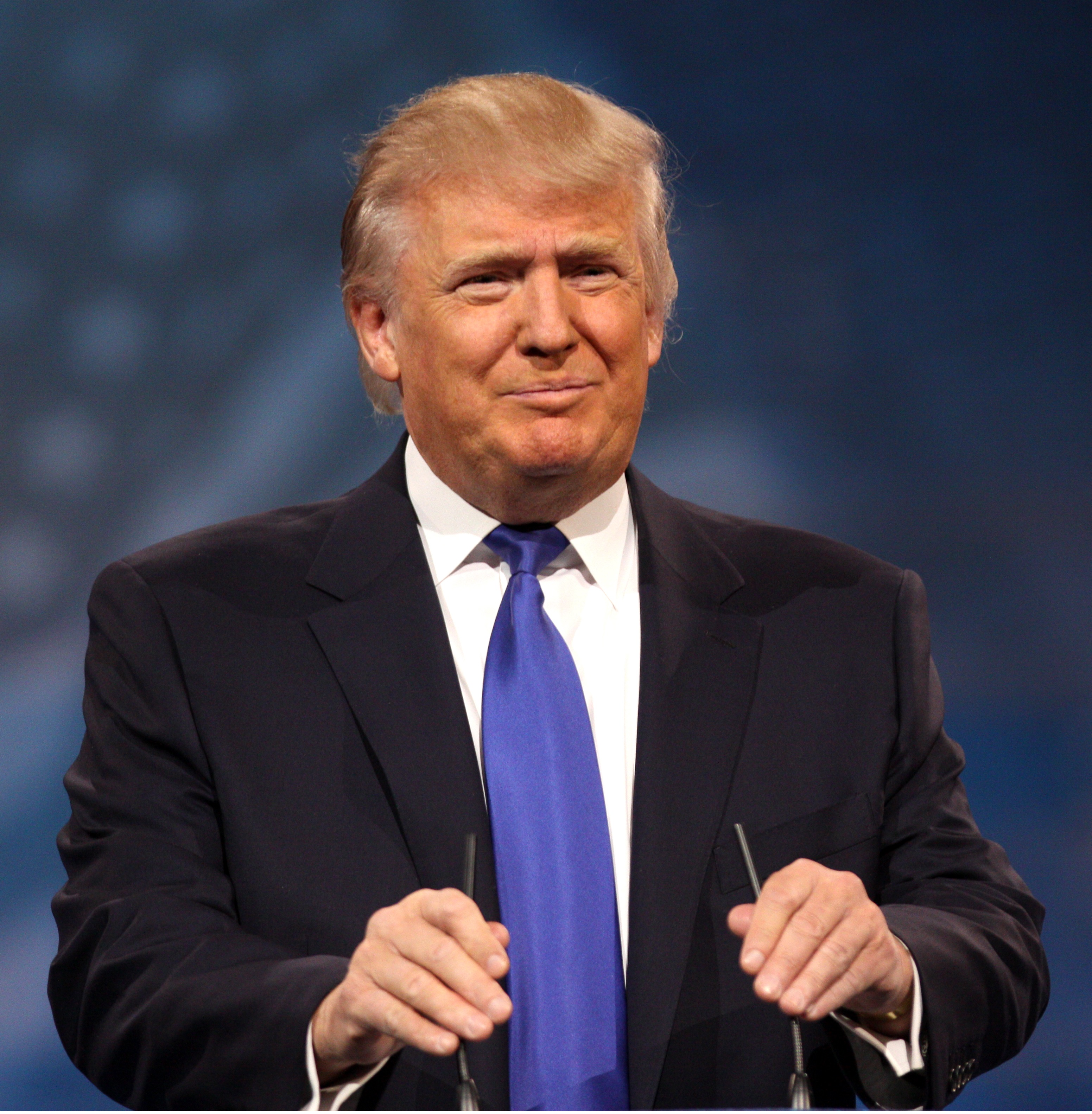 Donald Trump speaking at the 2013 Conservative Political Action Conference (CPAC) in National Harbor, Maryland.